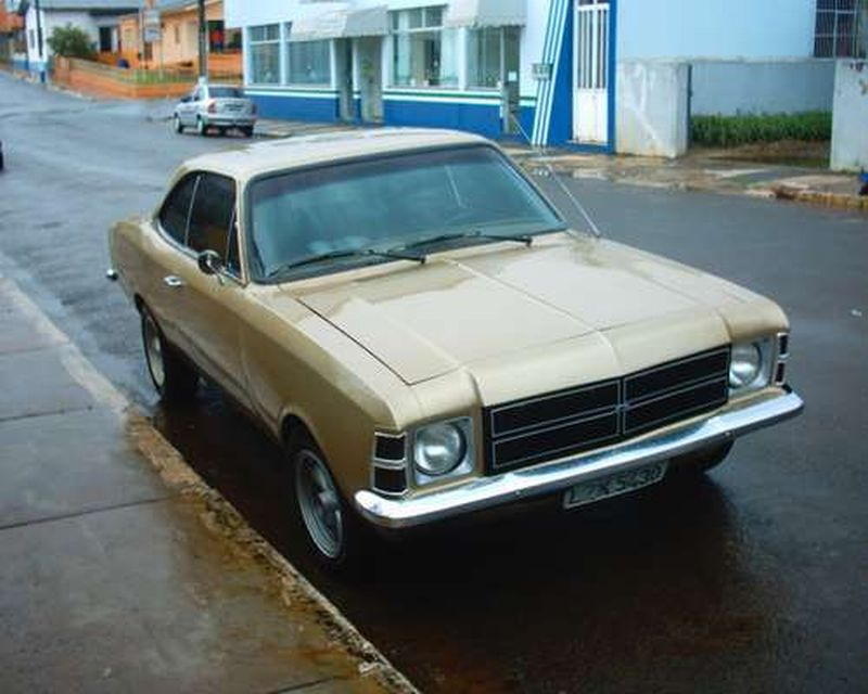 Chevrolet Opala, a Brazilian mid-size car related to the Opel Rekord C